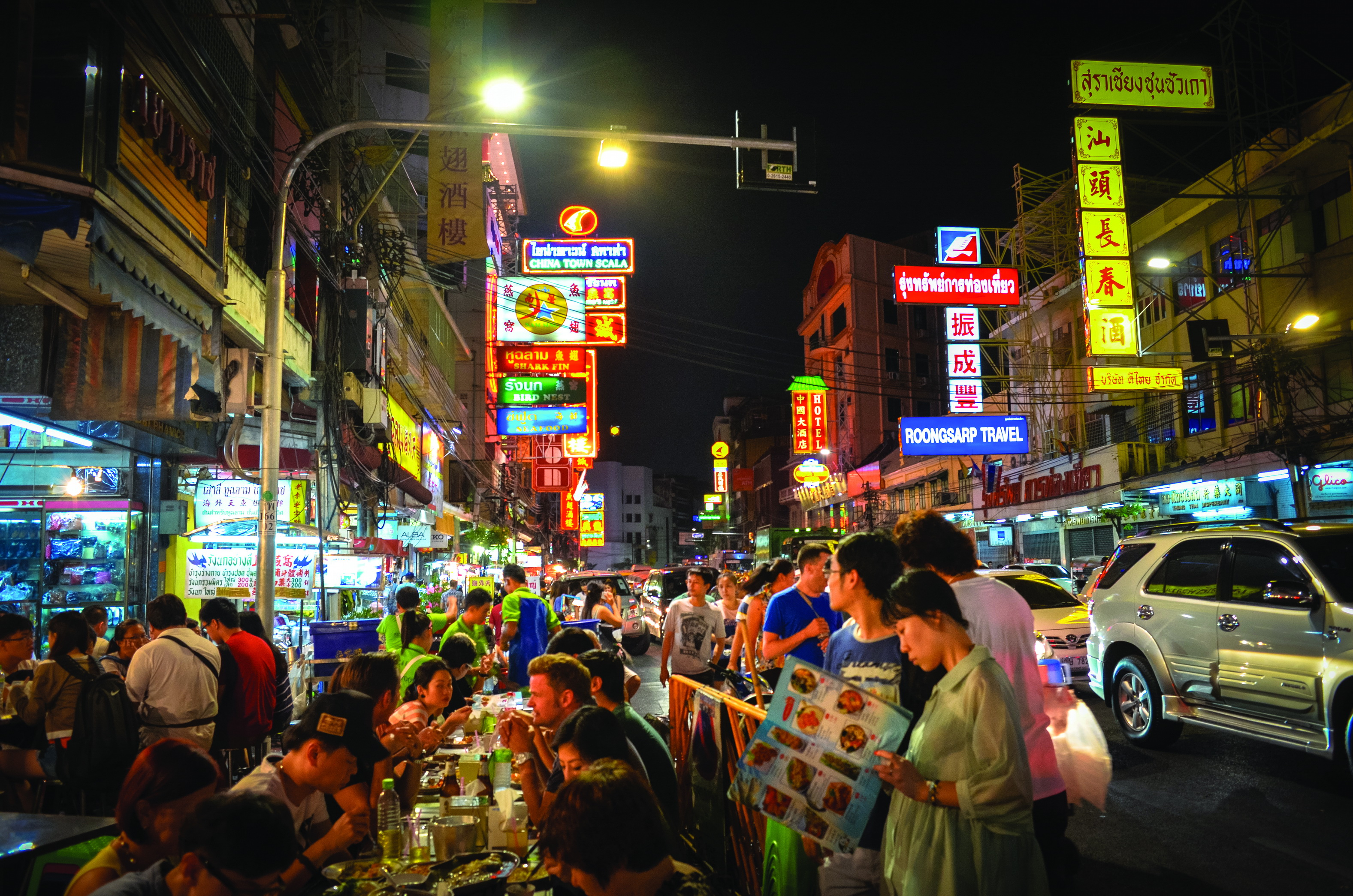 Yaowarat road is one of the first eighteen extended through the heart of the capital city in the reign of King Rama V. It took 8 years (1891-1900) for completion. This road was originally named “Yupparat”, and later changed to “Yaowarat”. With a total distance of approximately one kilometre, this road extends from the canal encircling the city, across from Maha Chai fortress, southwards and meets up with Rachawong road which was constructed in addition to Charoen Krung road straight to a bank of the Chao Phraya River (Rachawong Pier). Initially, this road was home to Chinese immigrants. King Rama V designated the area for a trade hub of commodities imported from China along with nightclubs, and gold shops. The first tallest building ever constructed is also in this area. Yaowarat road was nicknamed the “Dragon Road” where the Royal Jubilee Gate nearby the Odean Circle is the head, the area of old Yaowarat market is the centre, and the very end of the road is the tip of the tail. At present, this area is one of the busiest locations. This area was also labelled the “Chinatown of Thailand”.